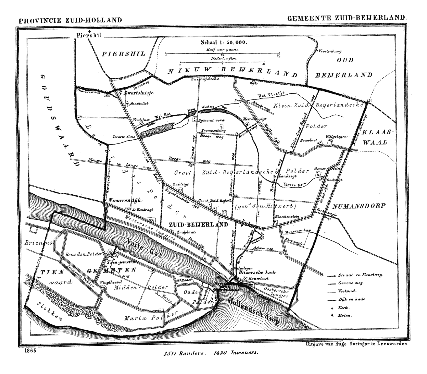 Historic map of Zuidbeijerland, municipality Korendijk, the Netherlands